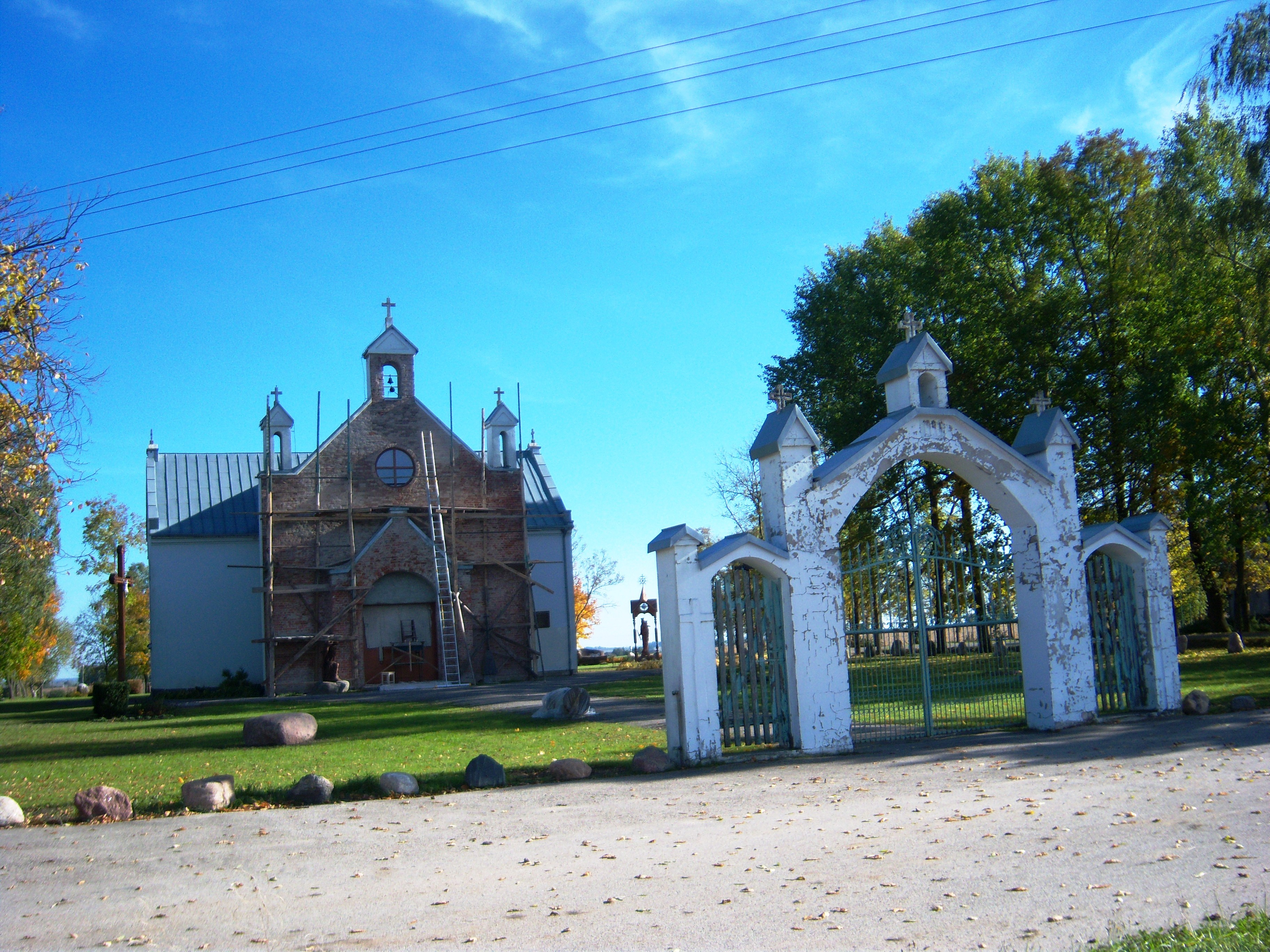 Catholic church in Skardupiai, Marijampolė District, Lithuania